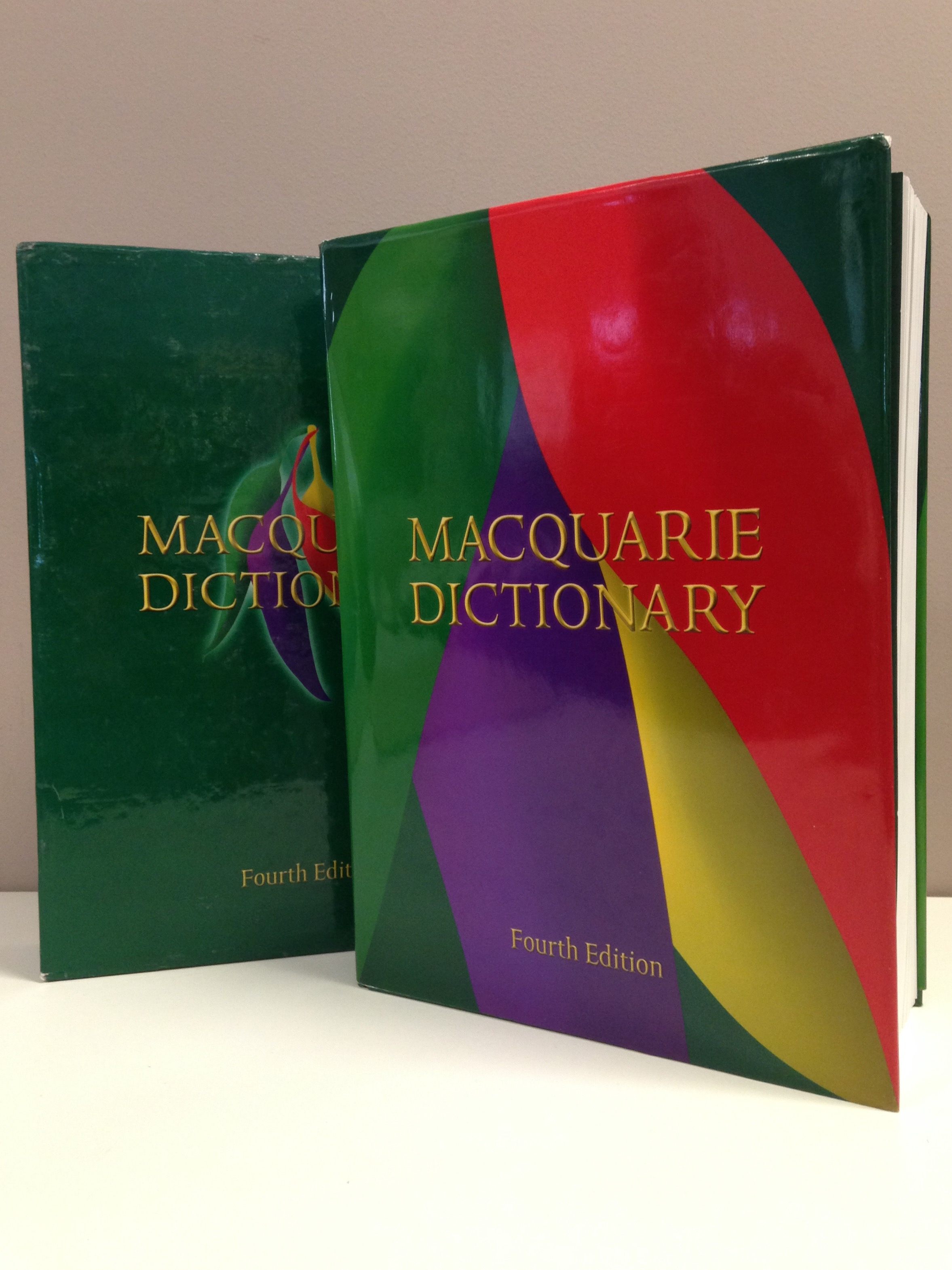 Photo of Macquarie Dictionary Fourth Edition